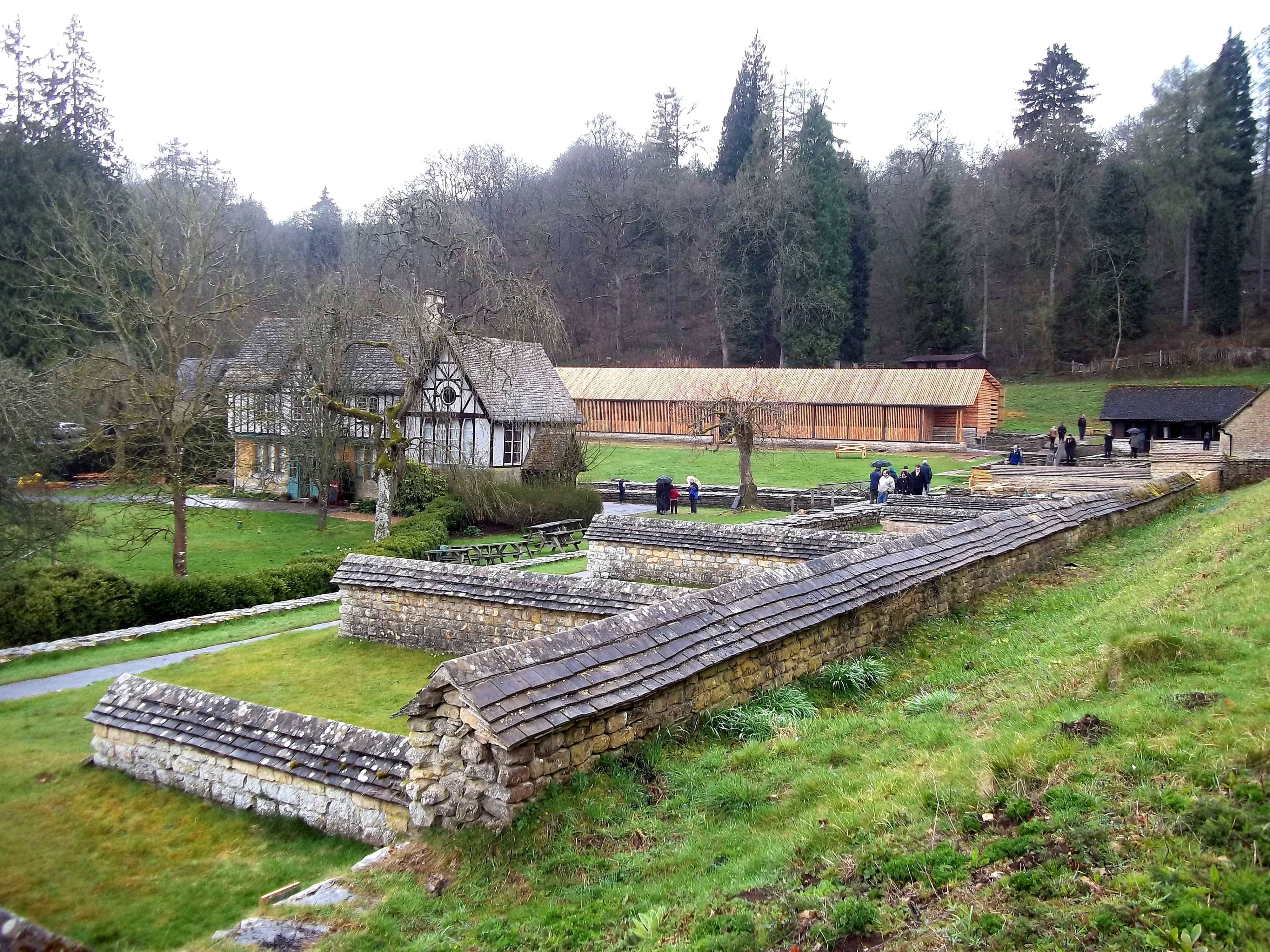 Chedworth Roman Villa -- View from northeast